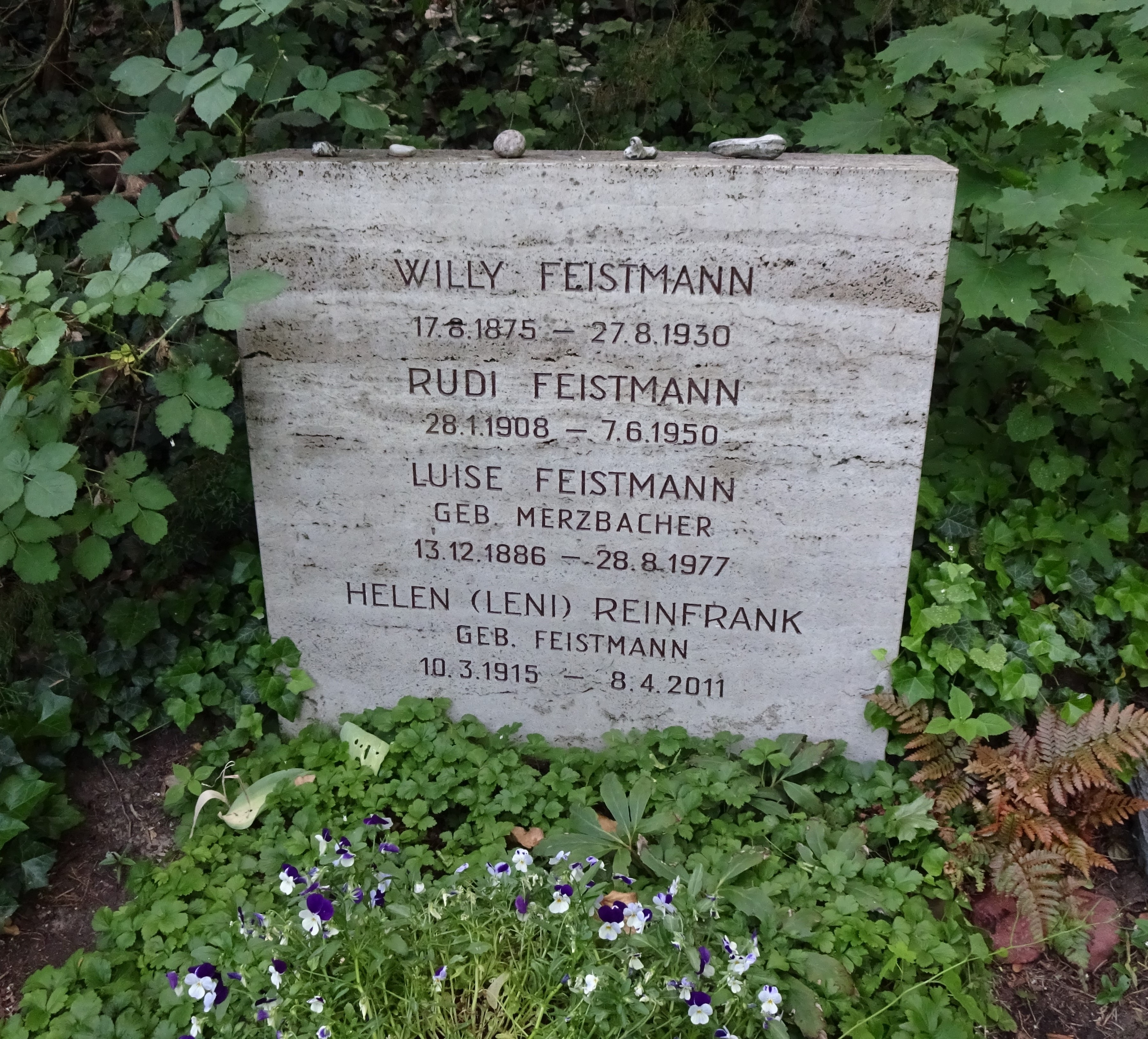 Grave of journalist Rudolf Feistmann in Friedhof Heerstraße in Berlin-Westend